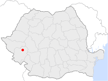 Location of Caransebeș in Romania.